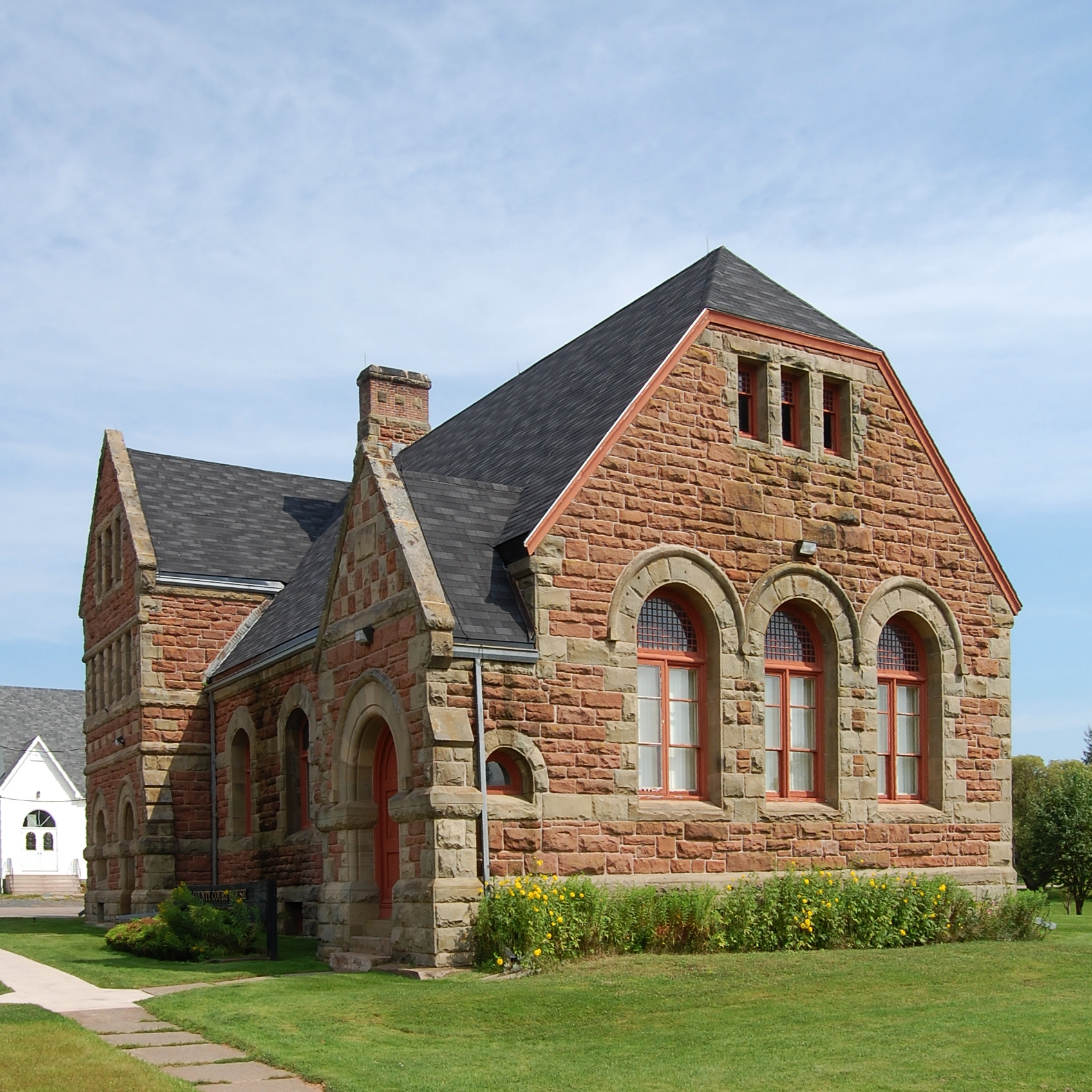 View of the sandstone courthouse in Georgetown Prince Edward Island Canada. It was designed by Island native William Critchlow Harris and erected in 1887.